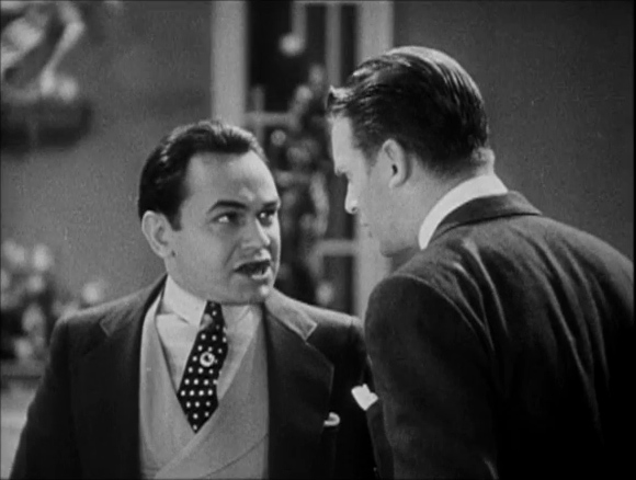 Cropped screenshot from the trailer for the 1931 film Little Caesar (1931).